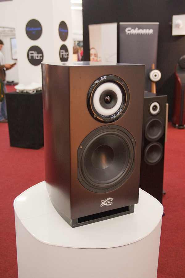 Eine Regalbox von Cabasse // Exhibits at HighEnd 2009 trade show, Munich, April 2009